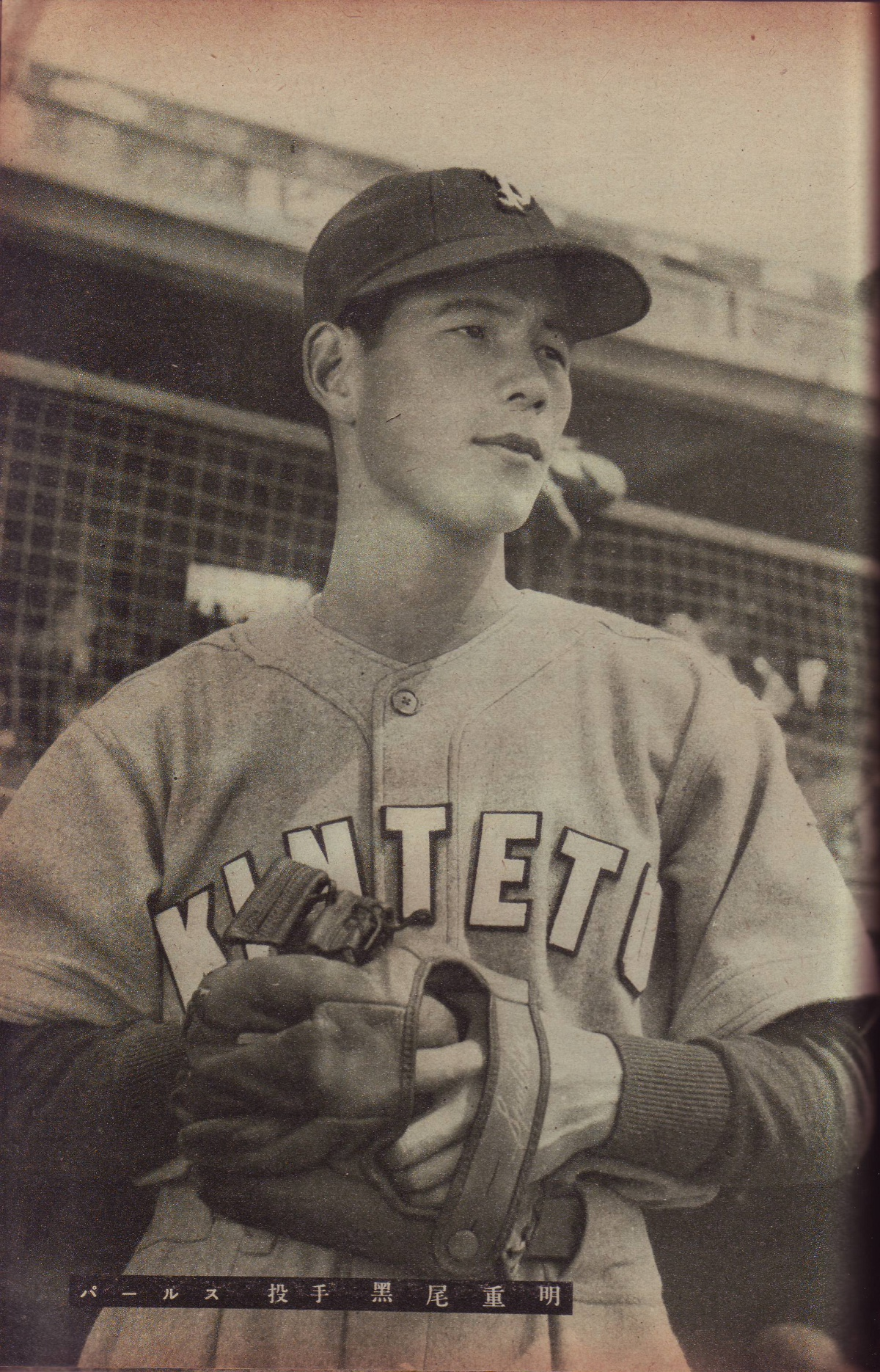 Shigeaki Kuroo (Kintetsu Pearls). taken in 1950.